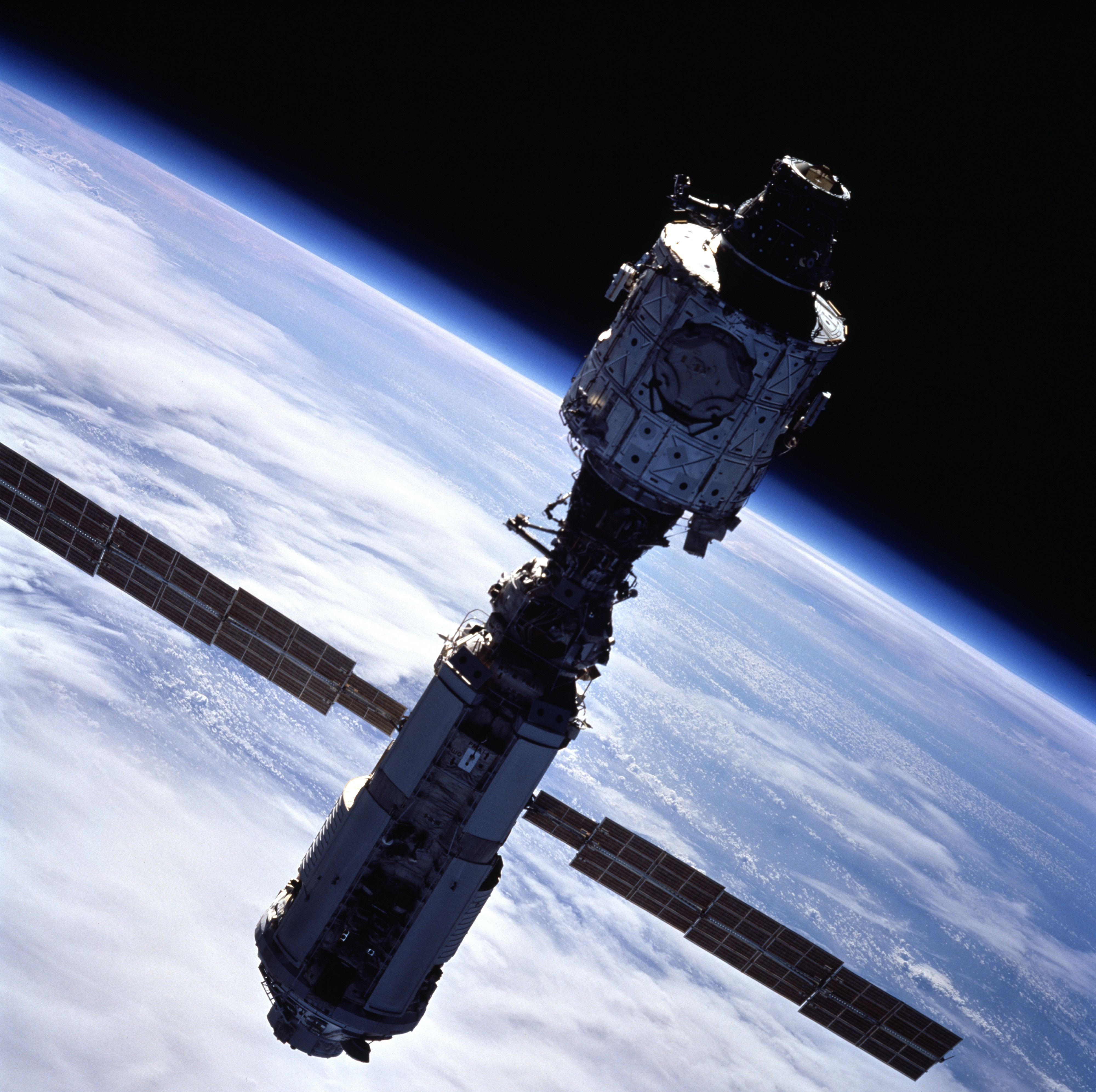 The International Space Station is contrasted against the cloud-covered home planet and the darkness of space in this post-undocking view.